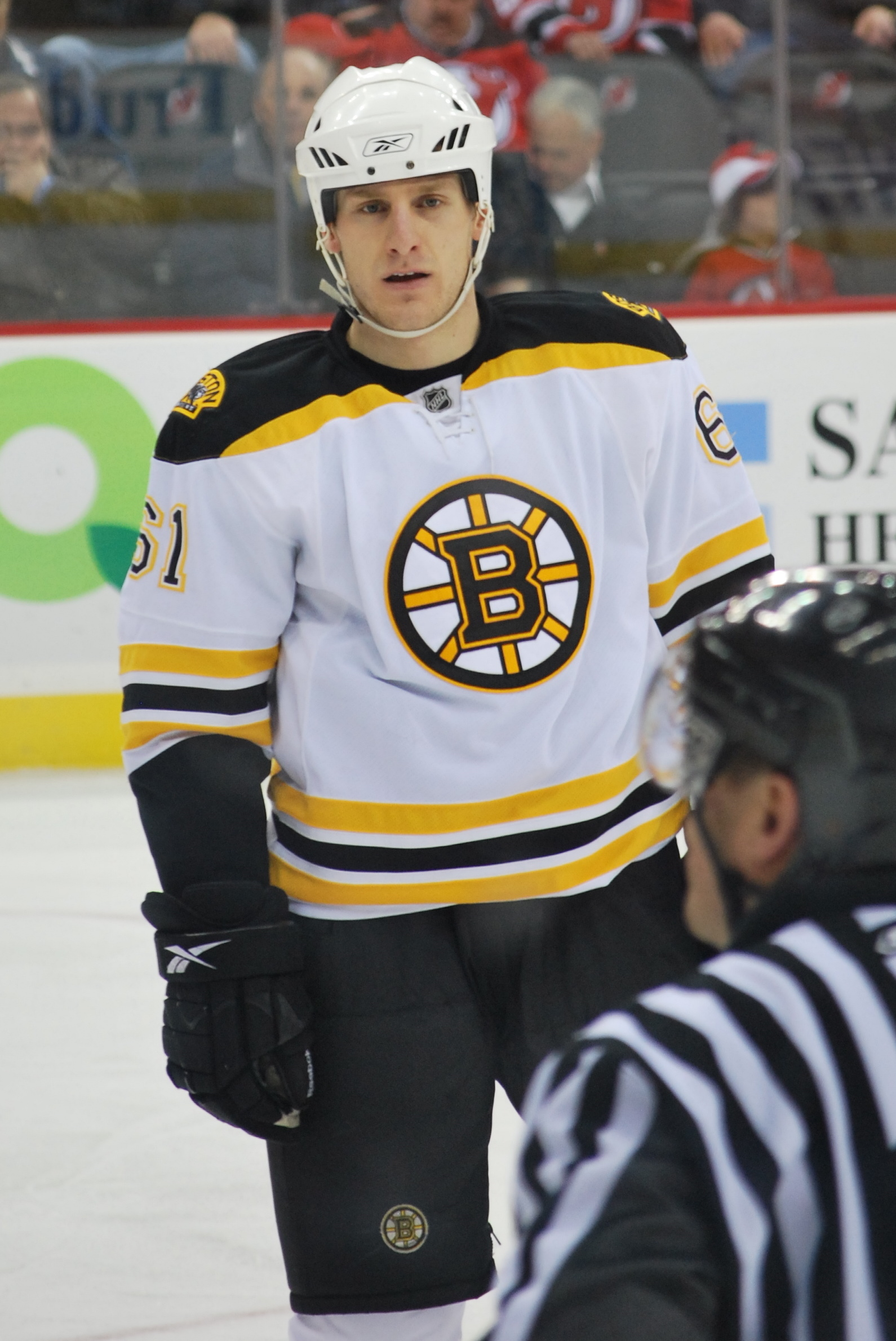 Boston Bruins forawrd Byron Bitz during a game against the New Jersey Devils on February 13, 2009, at Prudential Center, in Newark, NJ.